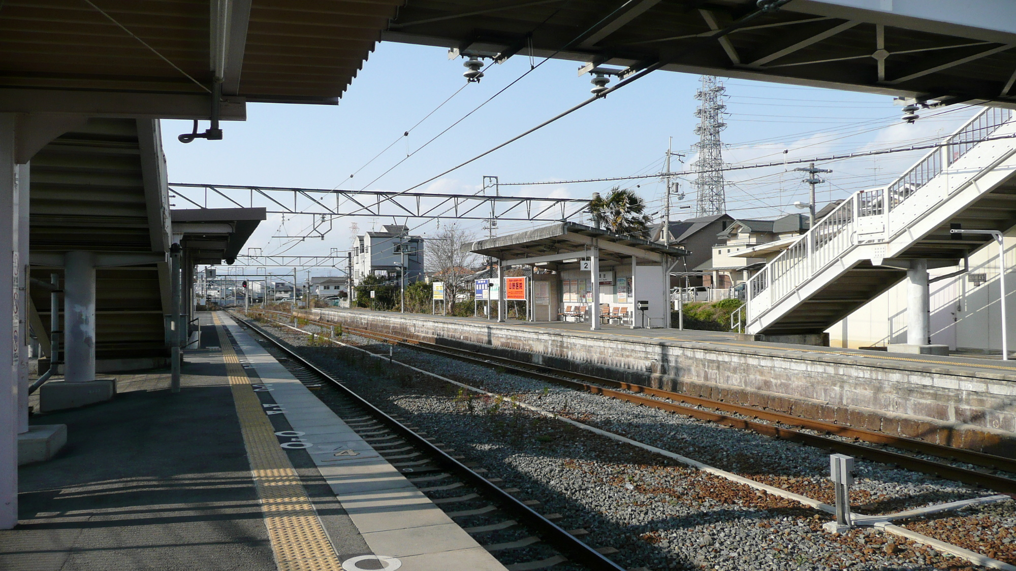 West Japan Railway,Nara Line,Nagaike Station platform. / 奈良線長池駅ホーム